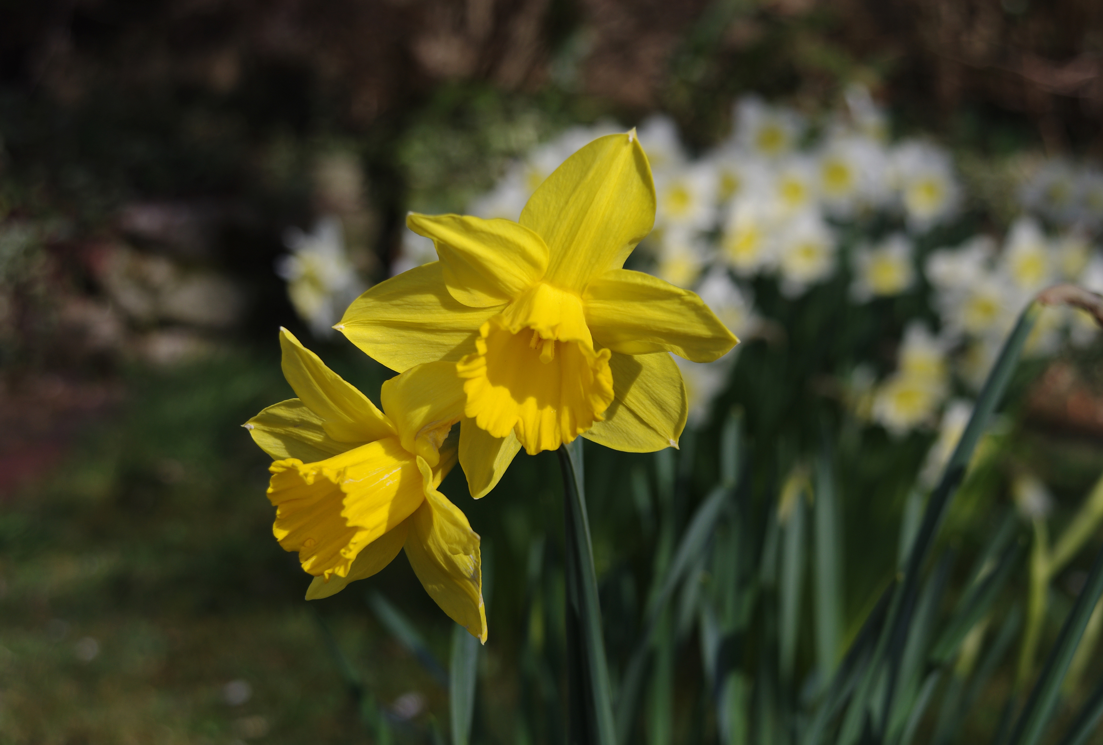 Daffodils in the garden at home.